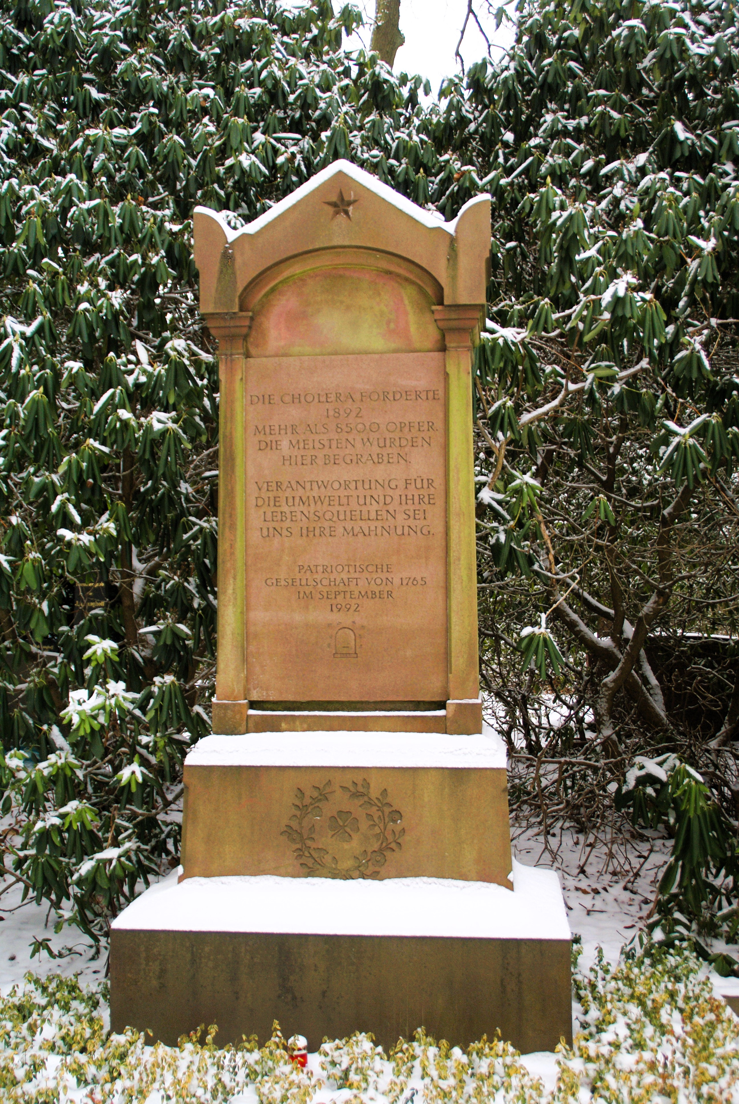 Monument for the 6500 victims of the cholera epidemic at Ohlsdorf Cemetery, Hamburg, Germany.